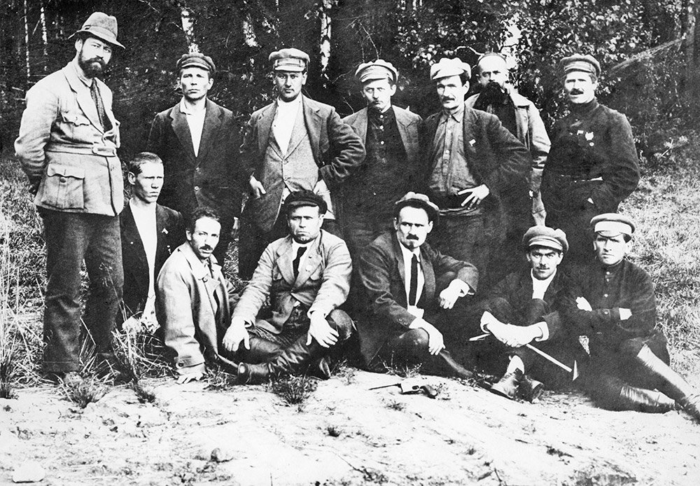 Group of Ural Bolsheviks at the alleged burial place of the Romanovs